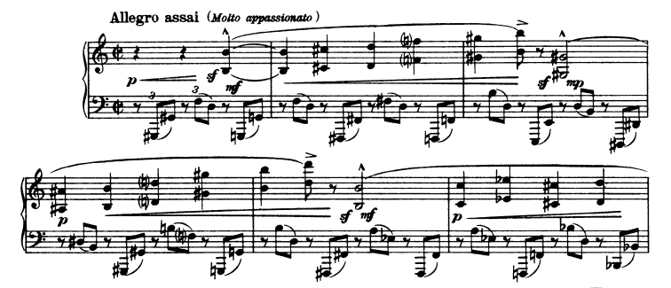 Karol Szymanowski piano sonata no. 2